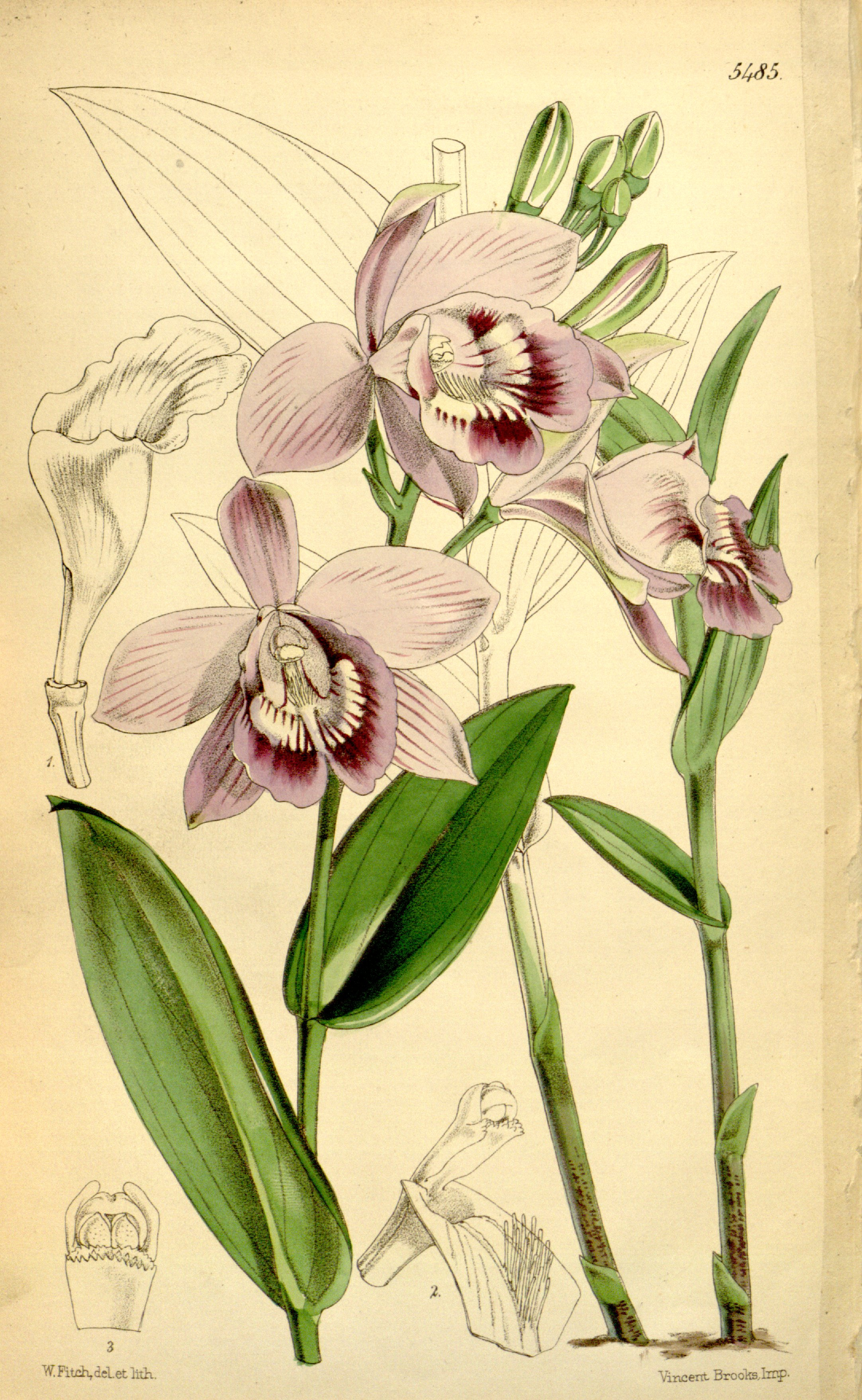 Illustration of Epistephium williamsii